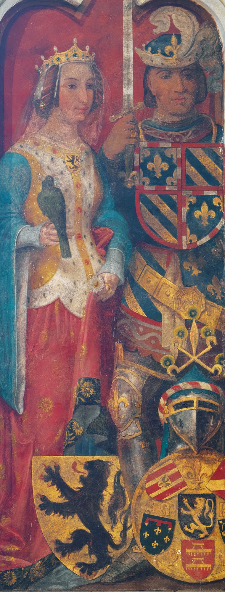 Margaret III, Countess of Flanders and Philip . This image is part of a gallery of the Count of Flanders, and thus depicts Philip the Bold, son of John II, rather than Philip of Rouvres, last duke of Burgundy of the older House of Burgundy. The arms shows Valois-Burgundy, for Philip the Bold, rather than plain Burgundy, for Philip of Rouvres.